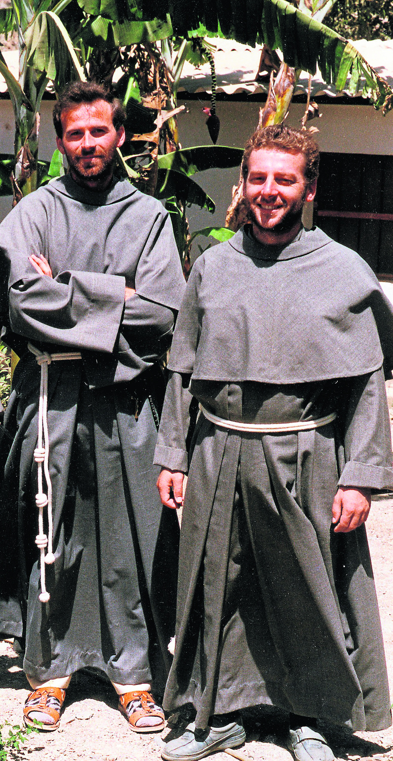 Polish Conventual martyrsː Michael Tomaszek & Zbigniew Strzalkowski